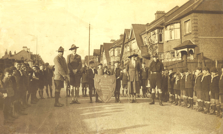 A photograph taken in 1919 showing Cub Scouts from the 4th Streatham Sea Scout Group meet Princess Marie Louise.